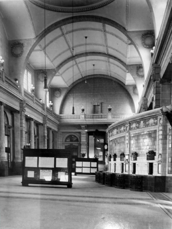 Retiro Station - Great Hall ticket lobby - Historical photos - 1915